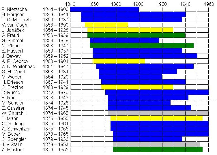 chronology table of philosophy around 1900.)